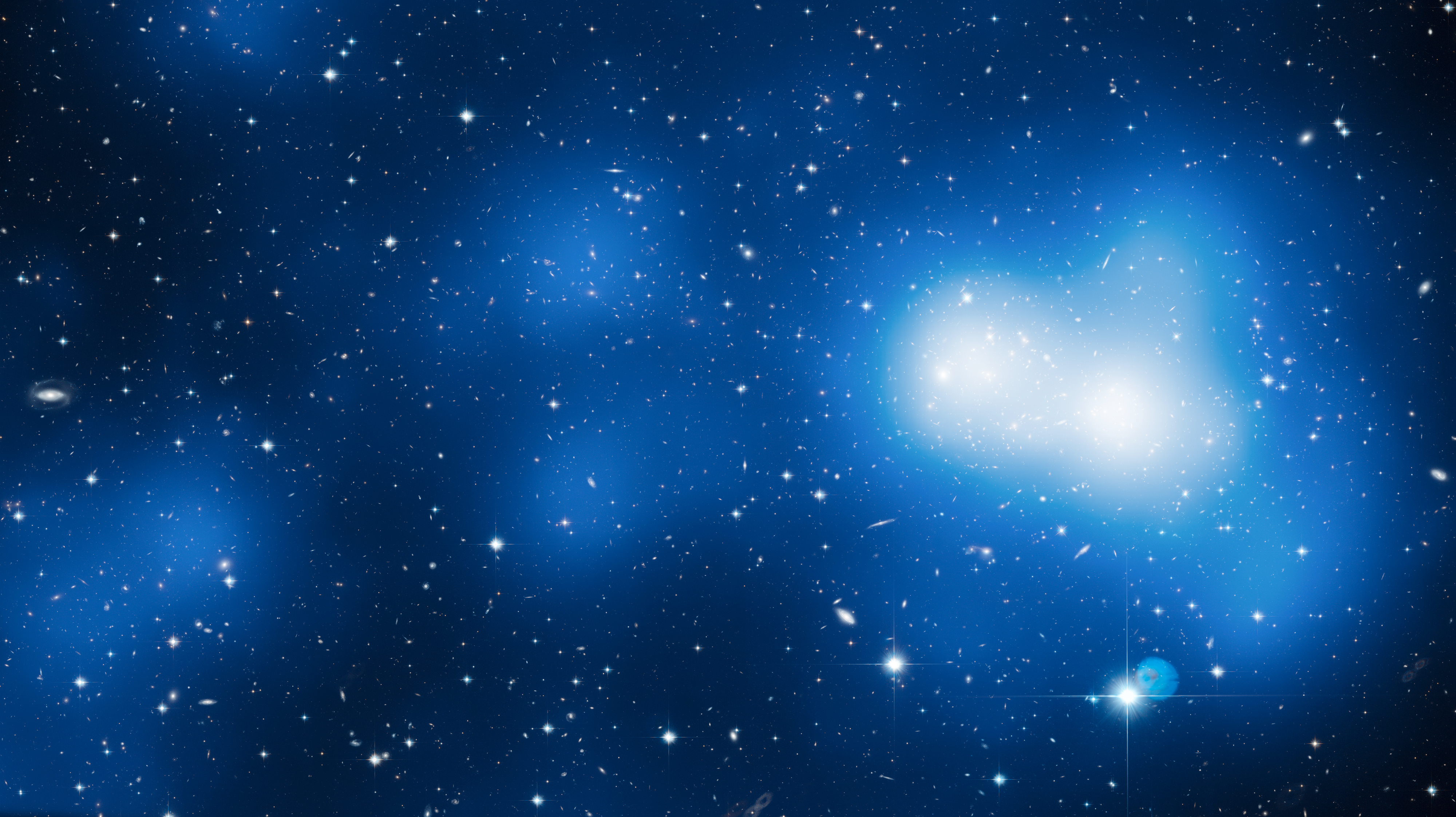 This enormous image shows Hubble’s view of massive galaxy cluster MACS J0717.5+3745. The large field of view is a combination of 18 separate Hubble images. Studying the distorting effects of gravity on light from background galaxies, a team of astronomers has uncovered the presence of a filament of dark matter extending from the core of the cluster. The location of the dark matter is revealed in a map of the mass in the cluster and surrounding region, shown here in blue. The filament visibly extends out and to the left of the cluster core. Using additional observations from ground-based telescopes, the team was able to map the filament’s structure in three dimensions, the first time this has ever been done. The filament was discovered to extend back from the cluster core, meaning we are looking along it.